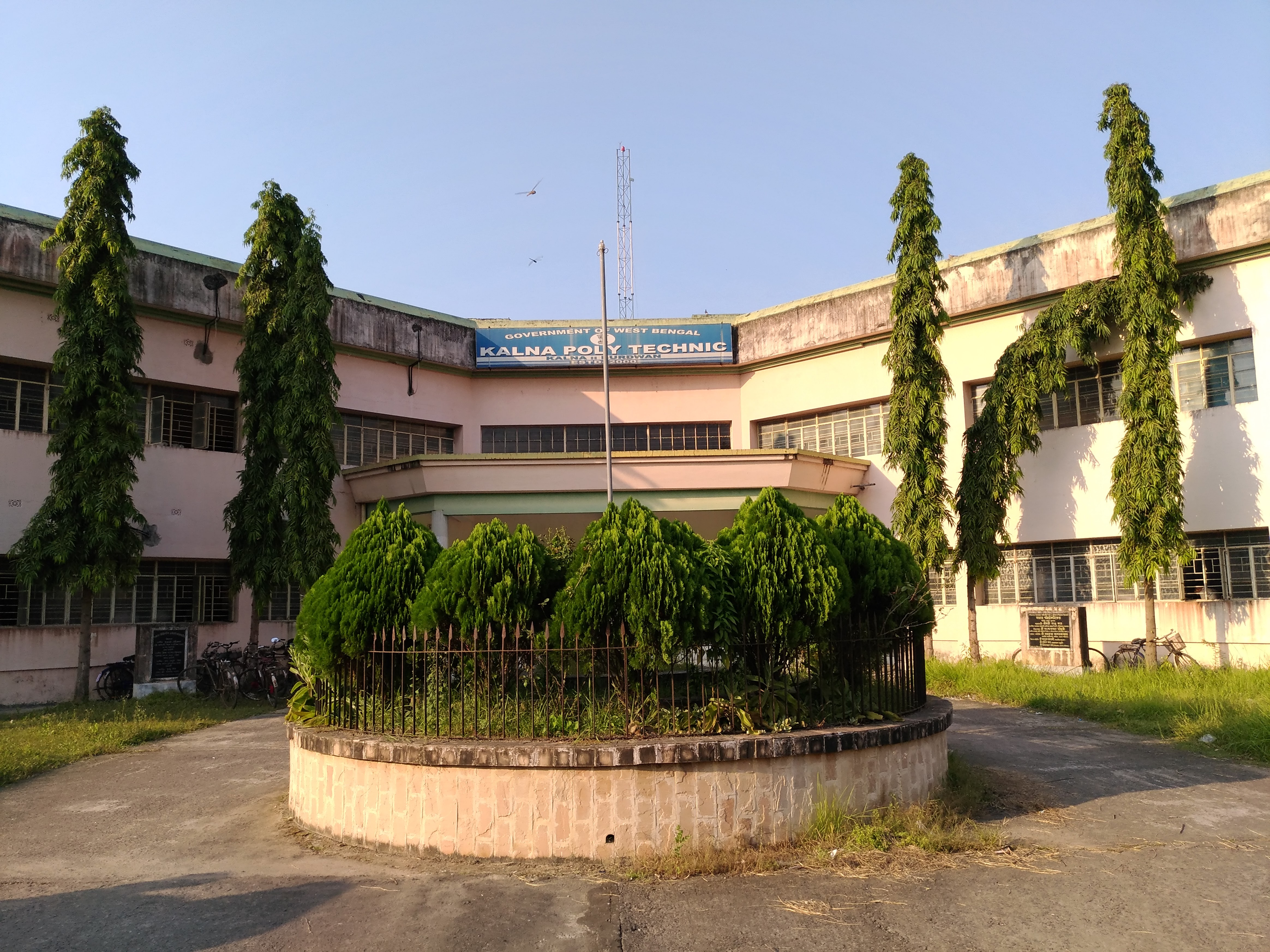 This is my first time going to attend class so i took this photo as a memory.